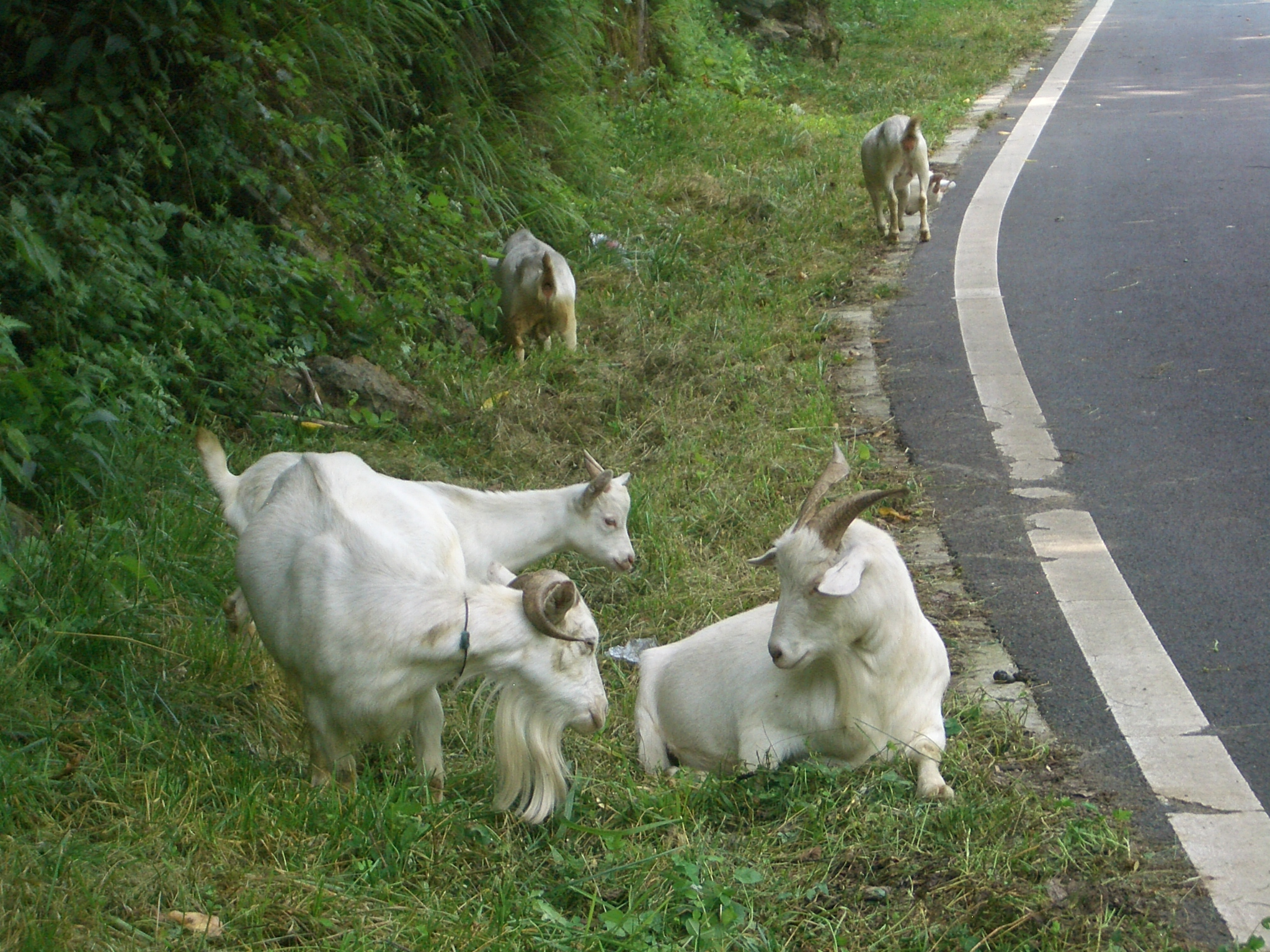 Goats grazing near Hwy G209, just south of Muyu Town, Shennongjia